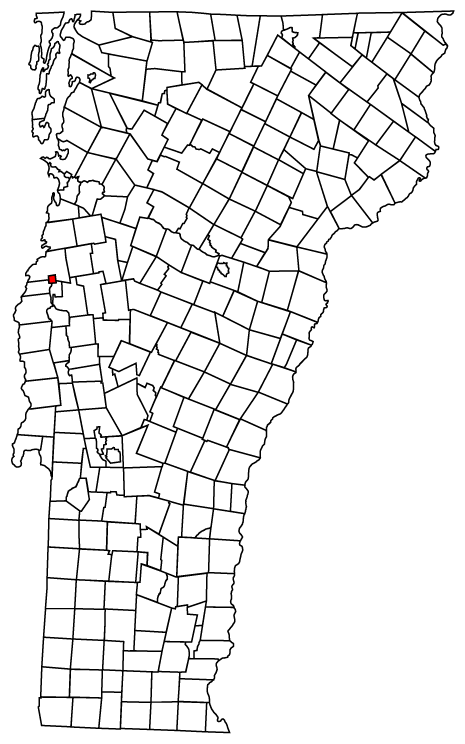 Description: Map of Vermont towns with Vergennes highlighted Source: Map created by Jared C. Benedict on 26 March 2004. Copyright: © Jared C. Benedict. Category:Vergennes, Vermont